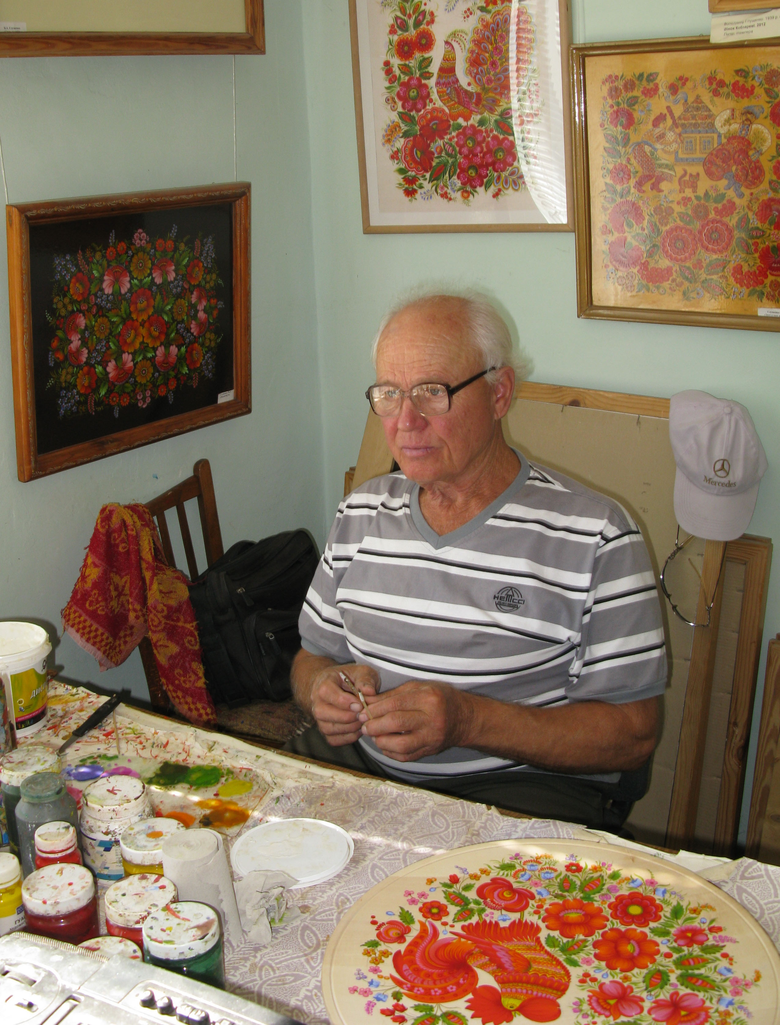 Volodymyr Glushenko, famous petrykivka painting artist, Petrykivka